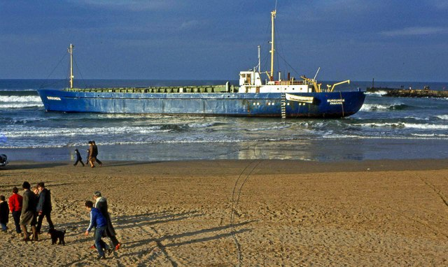 Aground near Castlerock. In 1981 the small coaster "Burgundia" outbound Coleraine for Portugal with 400 tonnes of seed potatoes went ashore on the beach at Castlerock near the Barmouth 213407. Aground for about a month, she became quite an attraction. The potatoes were discharged to lorries, the ship later caught fire, was declared a total loss and ended up being scrapped at Troon.